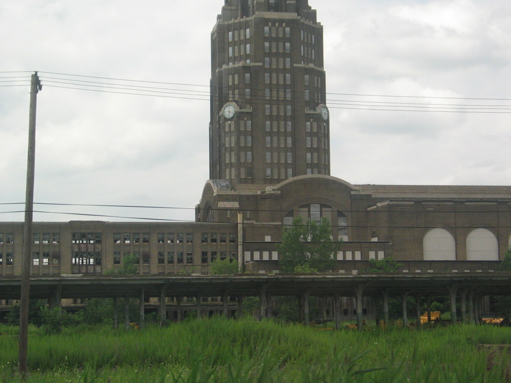 Buffalo Central Station photographed from Amtrak Train's window - horizontal view